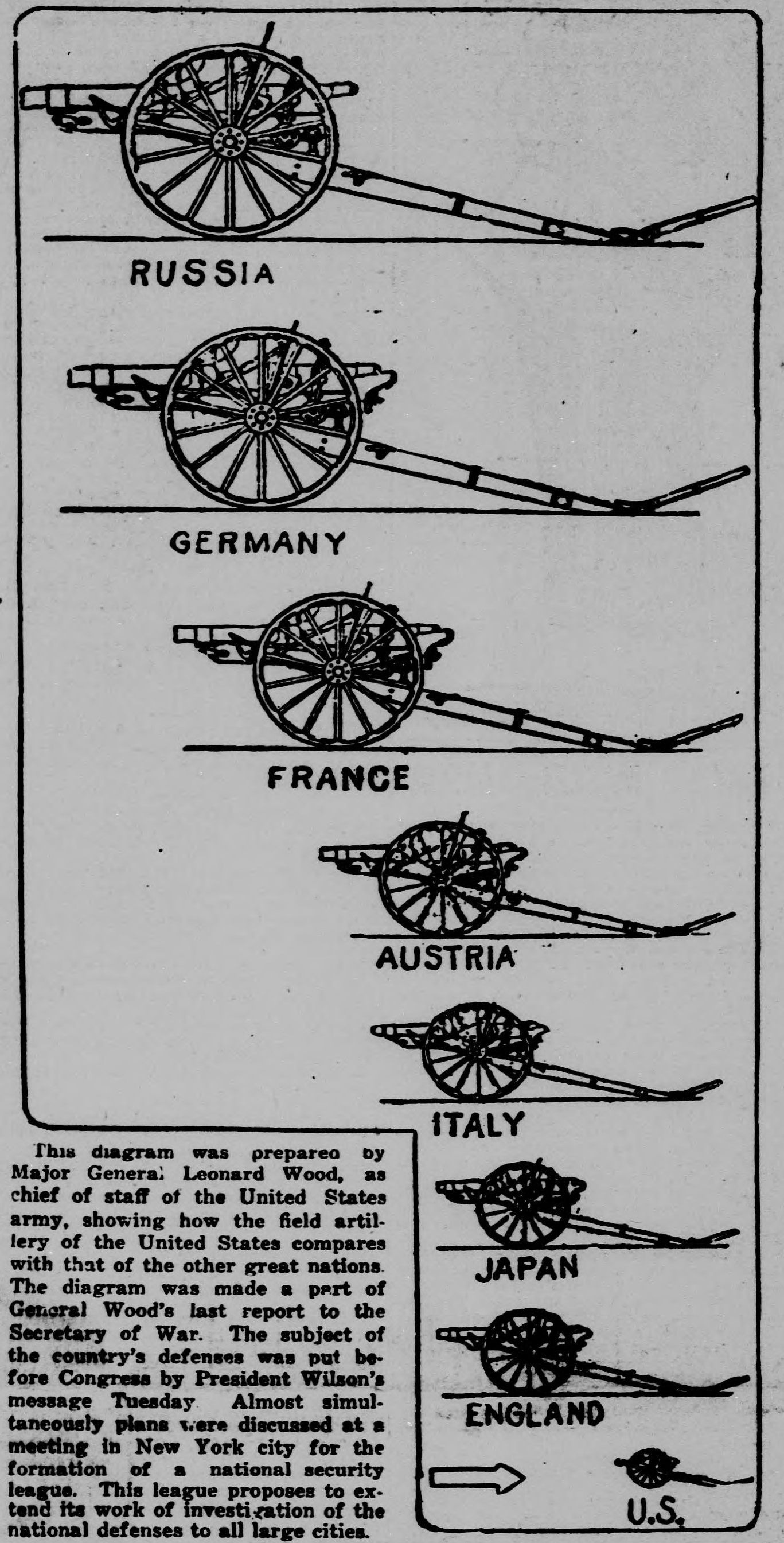 Military Field Artillery Numbers by Country in 1919 "Caption:This diagram was prepared by Major General Leonard Wood, as chief of staff of tht United States army, showing how the field artillery of the United States compares with that of the other great nations. The diagram was made a part of General Wood's last report to the Secretary of War. The subject of the country's defenses was pat before Congress by President Wilson's message Tuesday. Almost simultaneously plana were discussed at a meeting in New York city for the formation of a national security league. This league proposes to extend its work of investigation of the national defenses to all large cities."